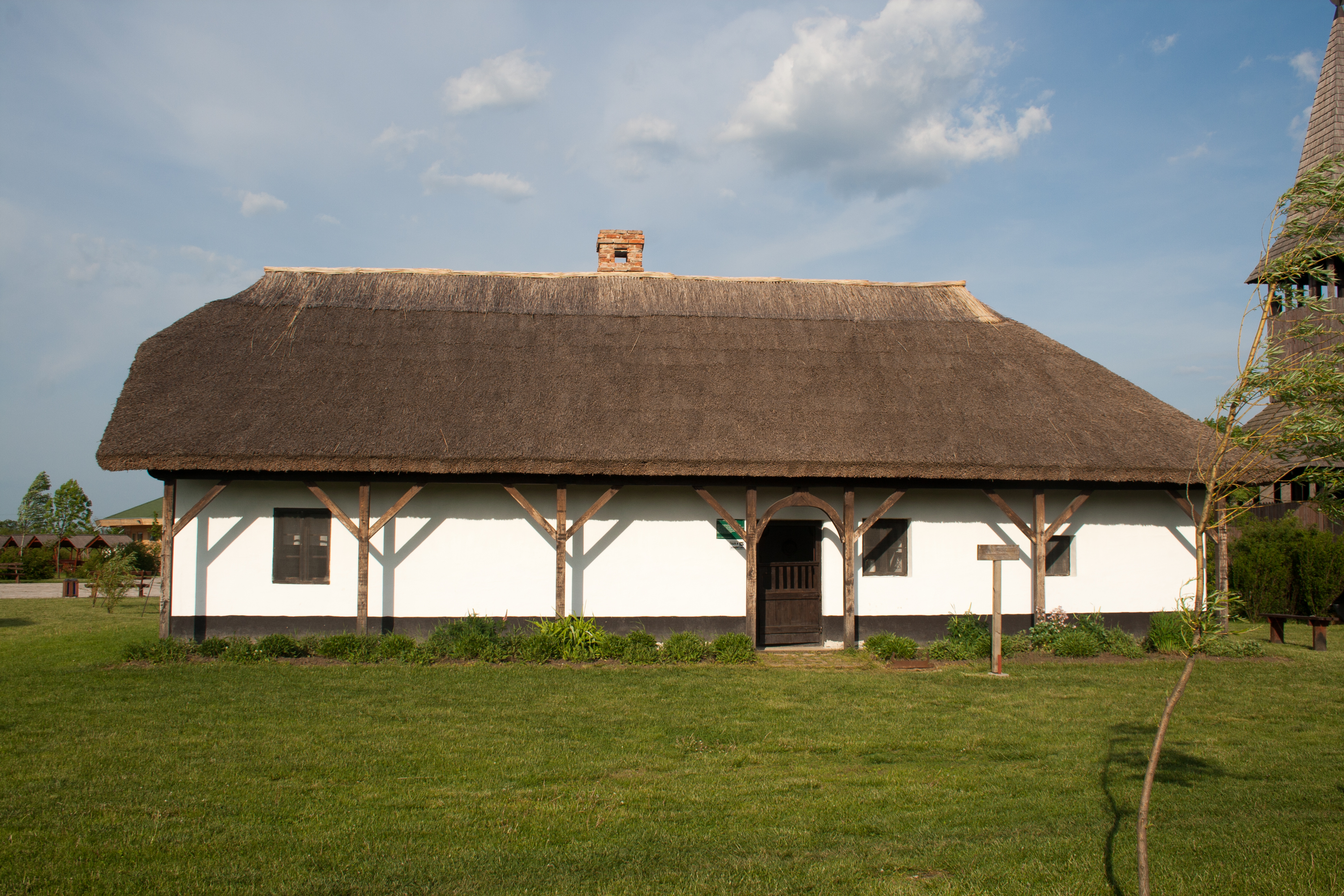 House from Hortobágy